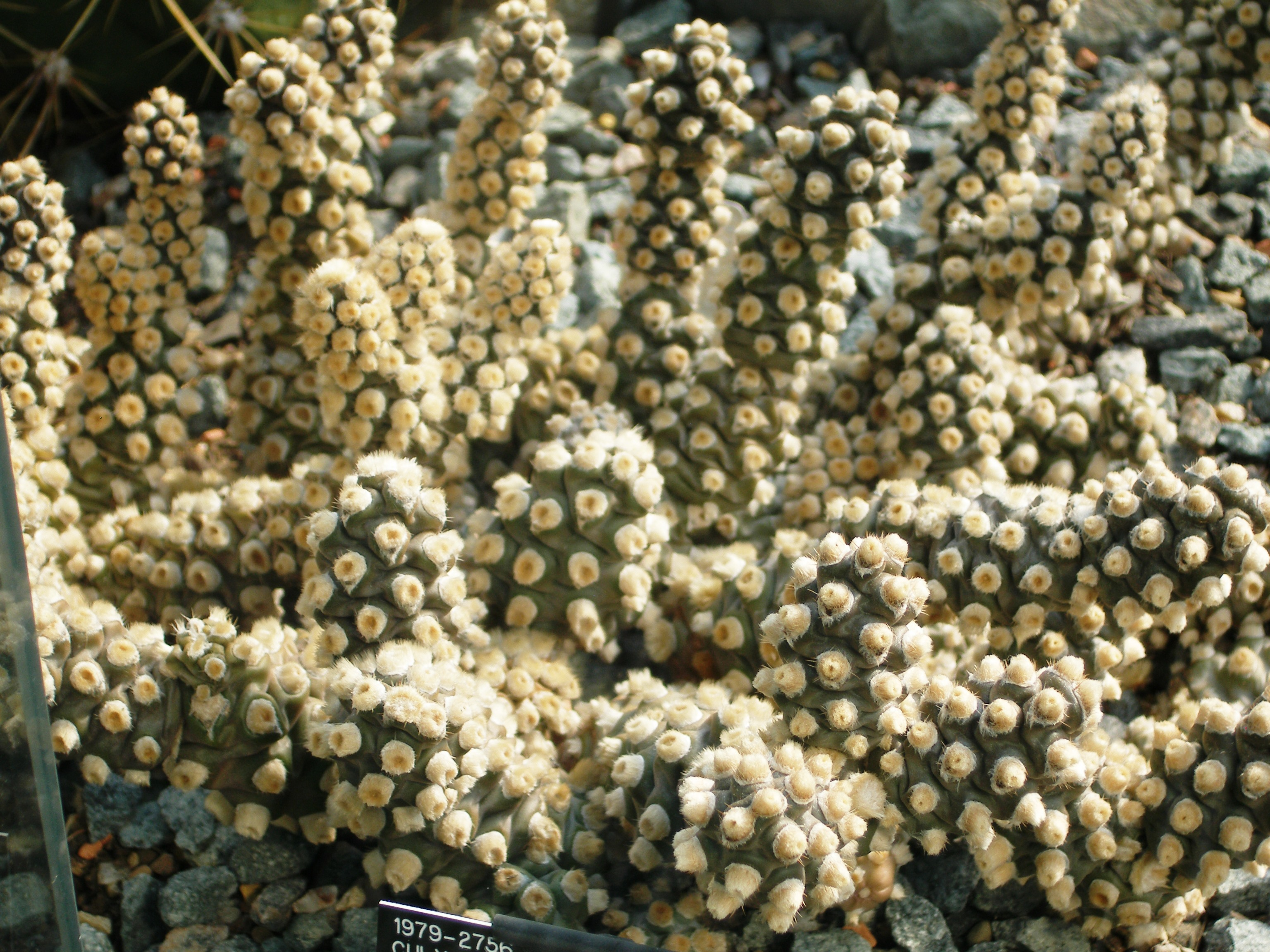 Specimen in cultivation at the Royal Botanic Gardens, Kew, United Kingdom.